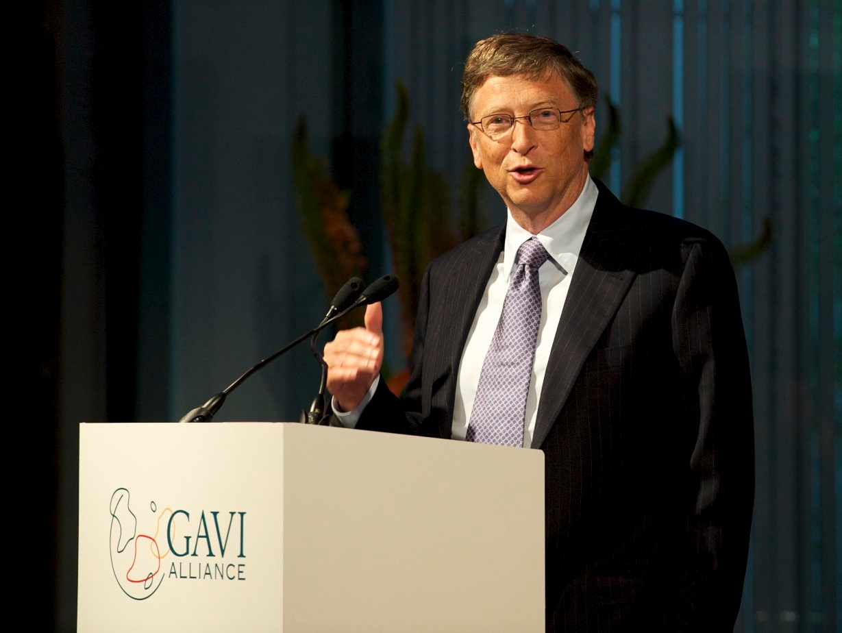 Founder of Microsoft Bill Gates speaking at the GAVI Alliance immunisation event in the UK on 13 June 2011. Picture: Ben Fisher/GAVI Alliance